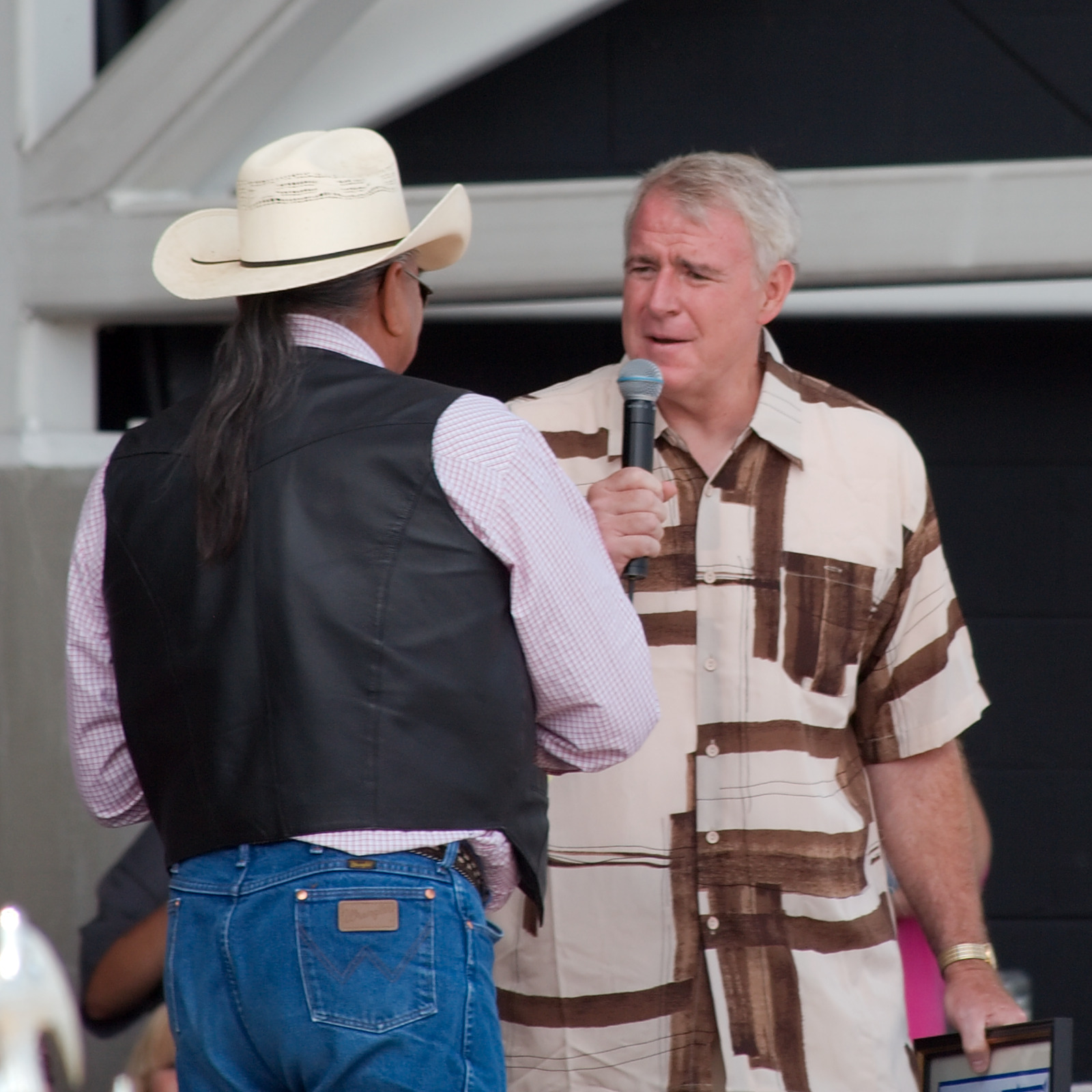 Milwaukee Mayor Tom Barrett at Indian Summer festival proclaiming Del Porter Day